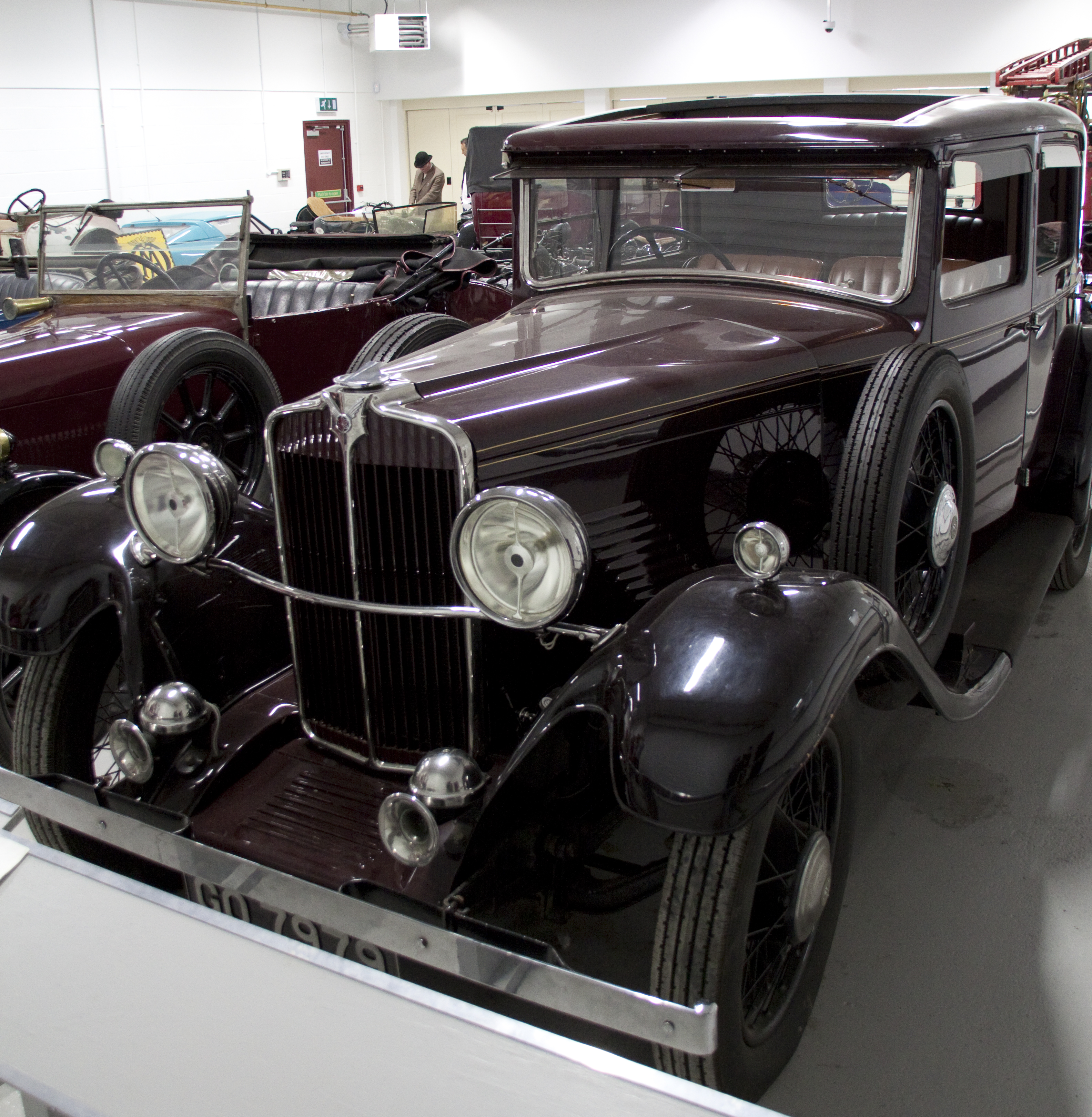 1931 Star Comet 18 h.p. Made by the Star Motor Co Ltd, Bushbury, Wolverhampton.